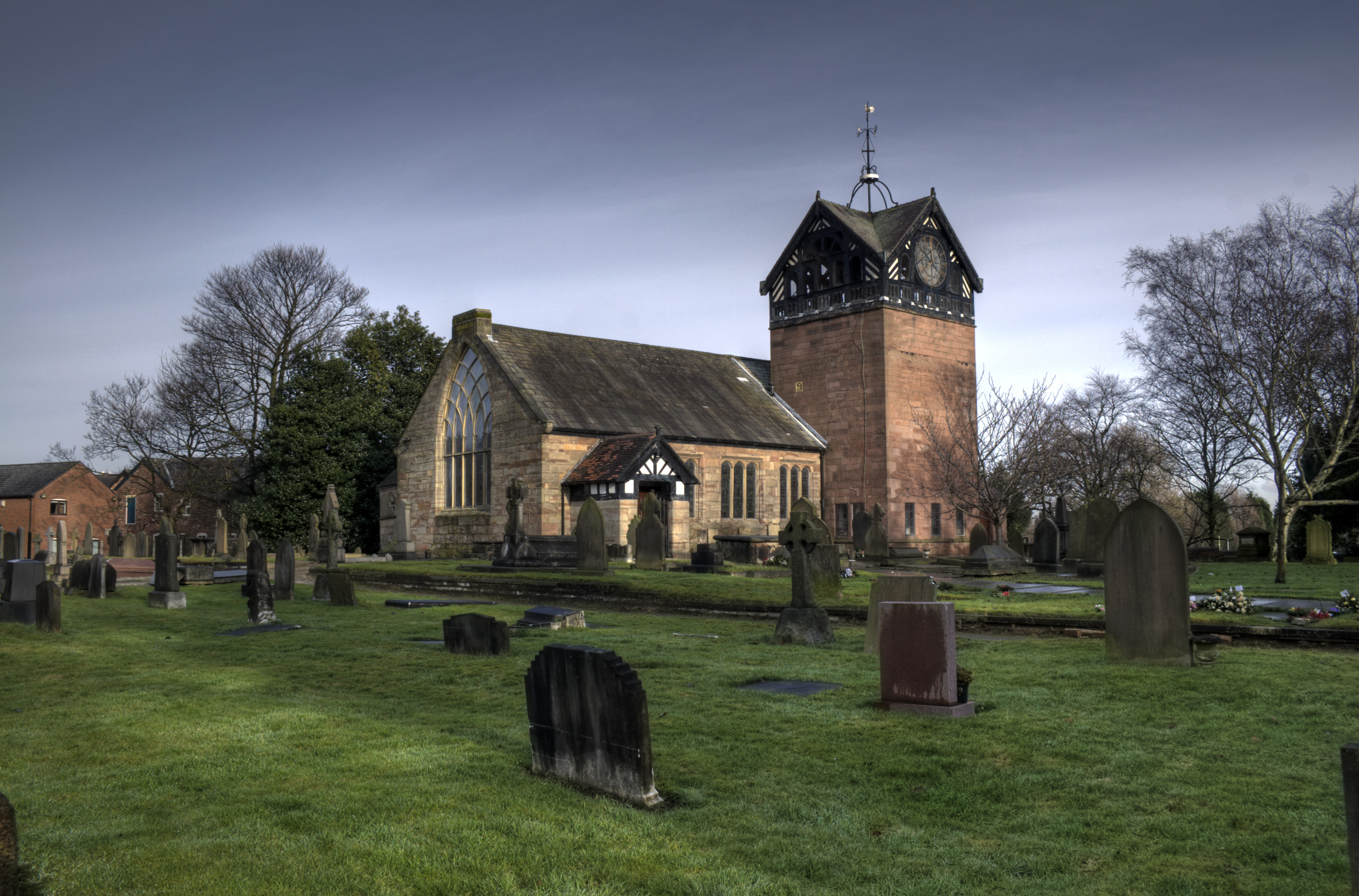 St Martins Church in Ashton-upon-Mersey